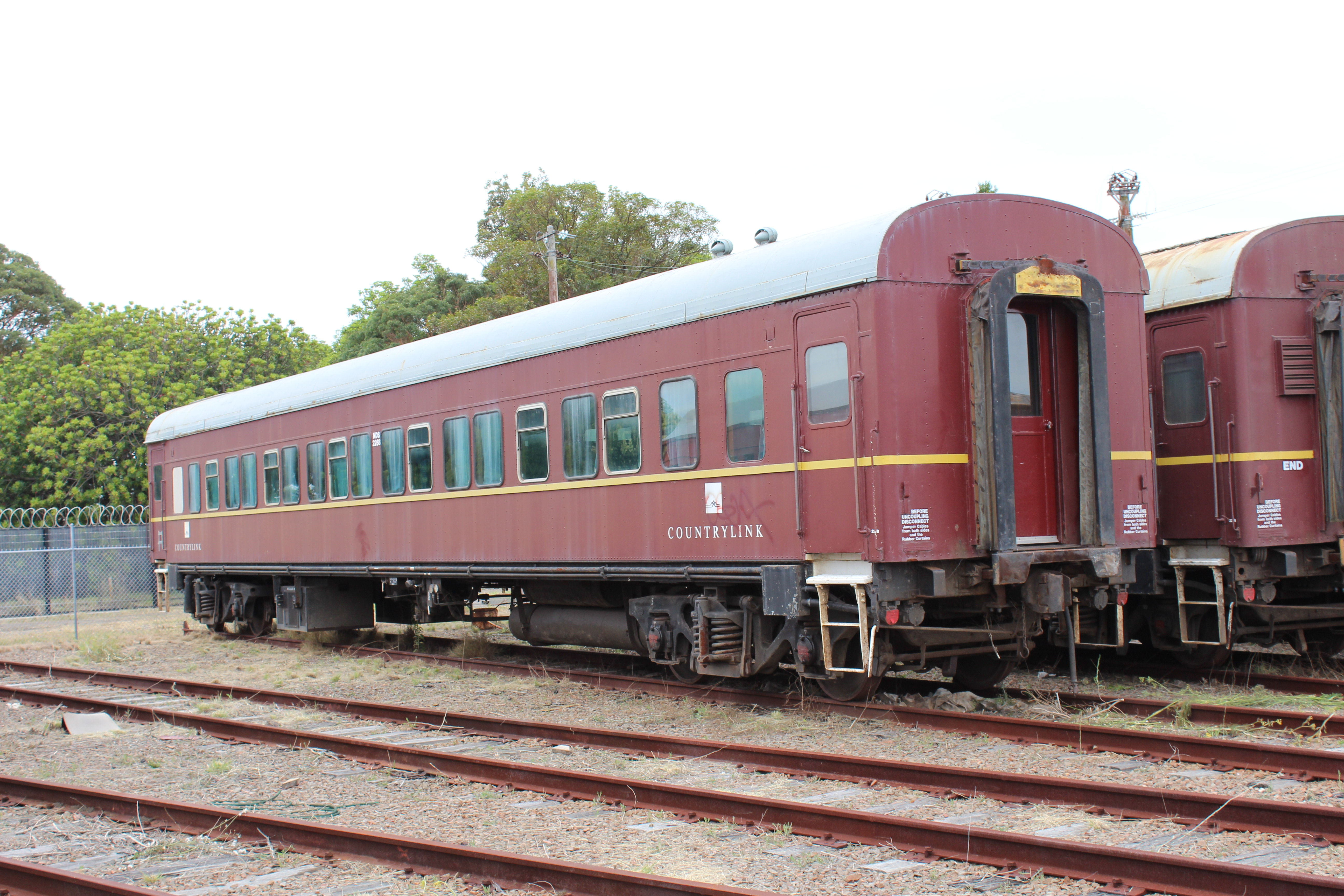 Exterior of Countrylink NDS 2268 stored at Broadmeadow Loco Depot